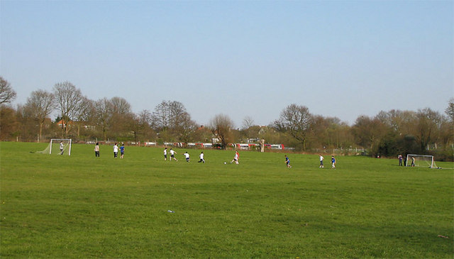 Sunday Football A sunday football match in progress on Brook Farm open space. Behind the players a southbound Northern Line train heads for Totteridge and Whetstone station.